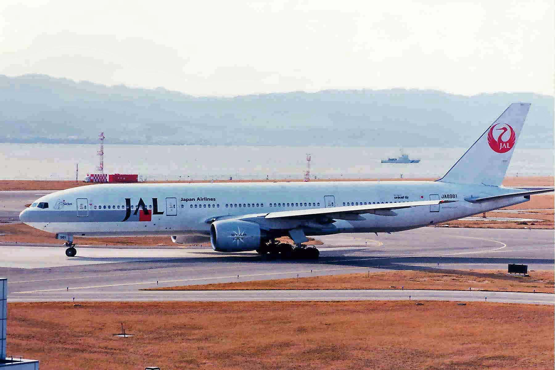 "Sirius". Retired from service in 2014.